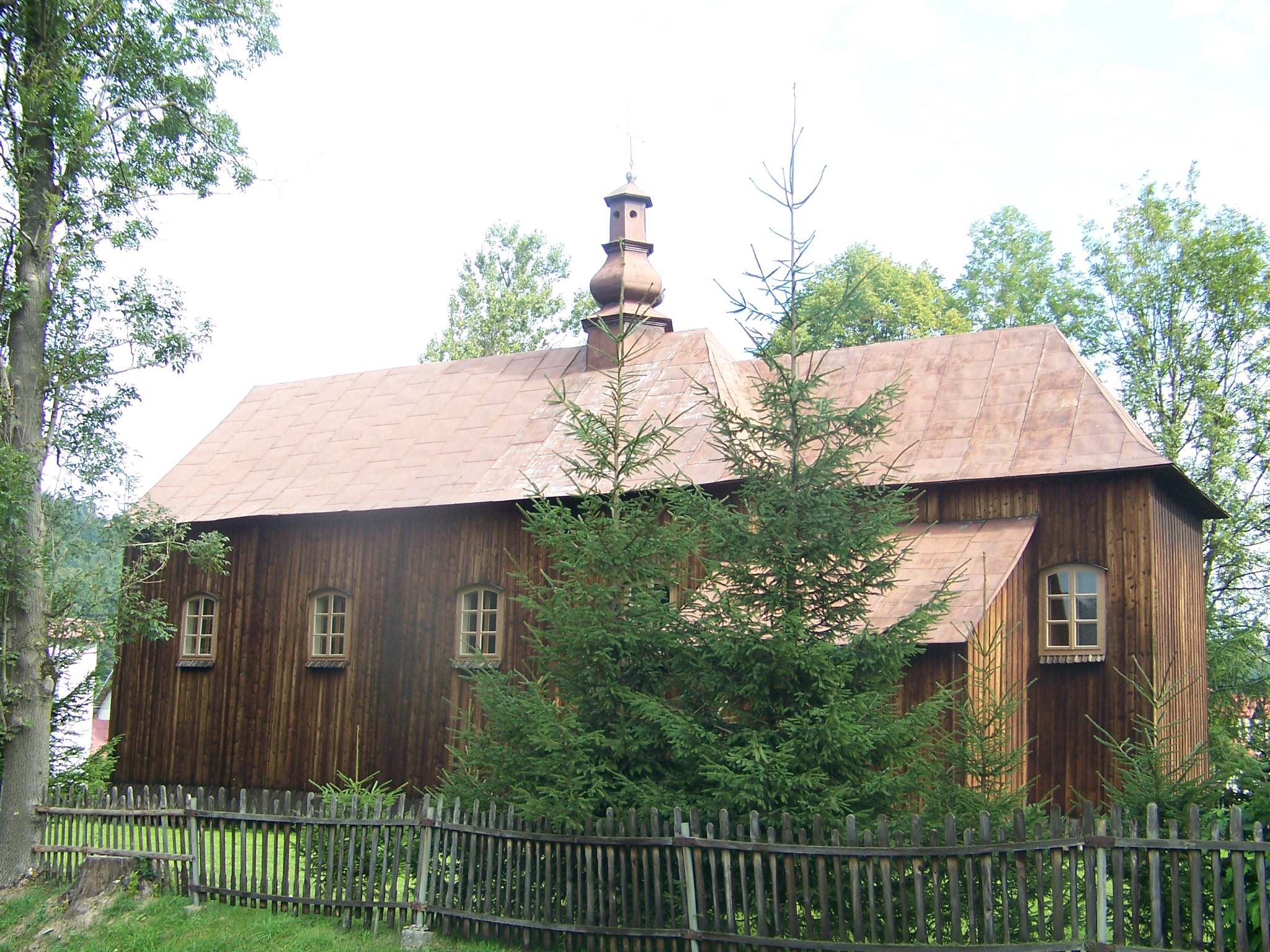 Ex-greek catholic church in Brzegi Dolne, Poland